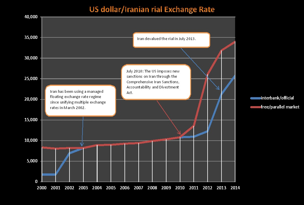 US dollar/Iranian rial exchange rates (2000-2011). Note: Iran has been using a managed floating exchange rate regime since unifying multiple exchange rates in March 2002 (up until 2010)